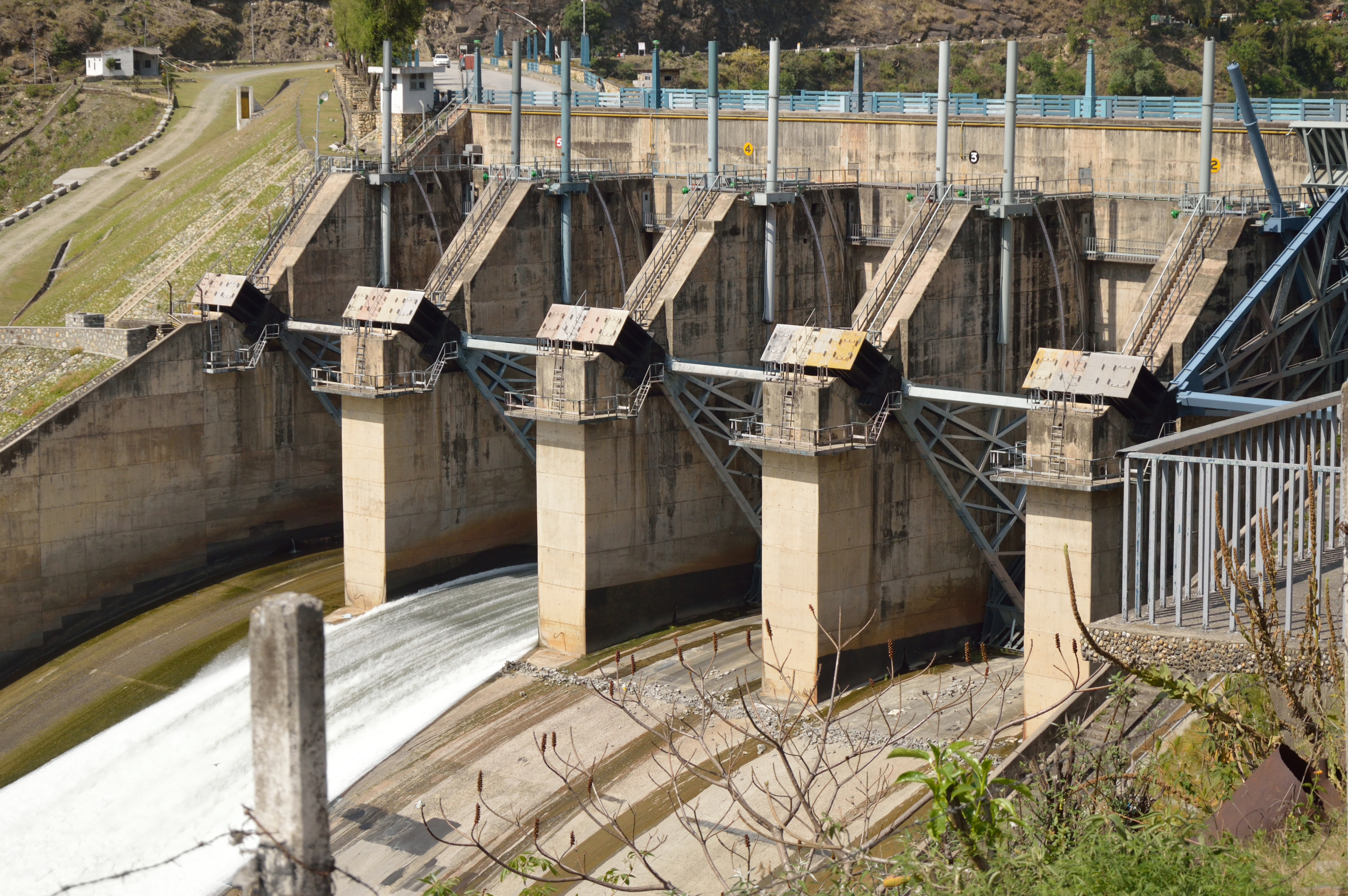 Photographed in Himachal Pradesh.